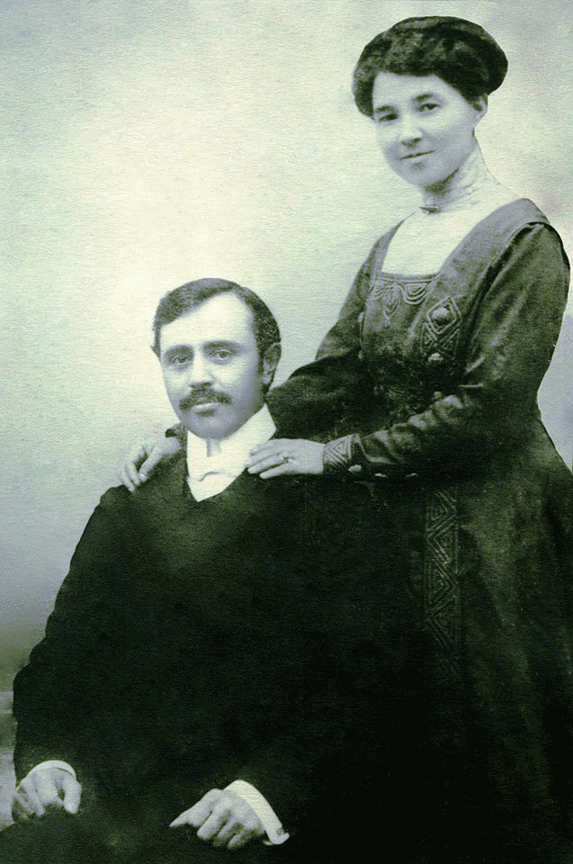 Üzeyir Hacibəyov (d. 1948 - Azerbaijan) with his wife Məleykə